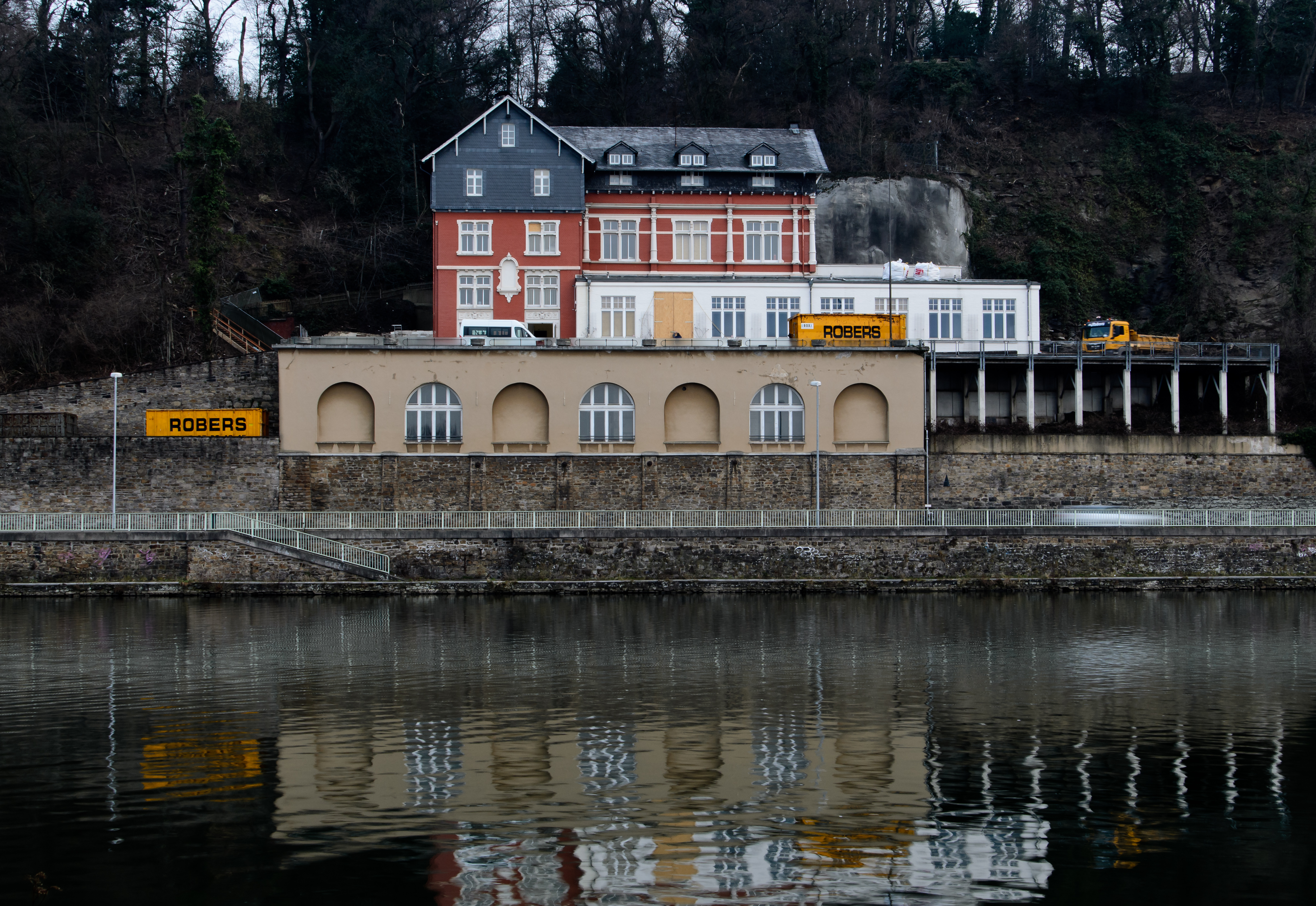 Youth Hostel Kahlenberg in Mülheim an der Ruhr